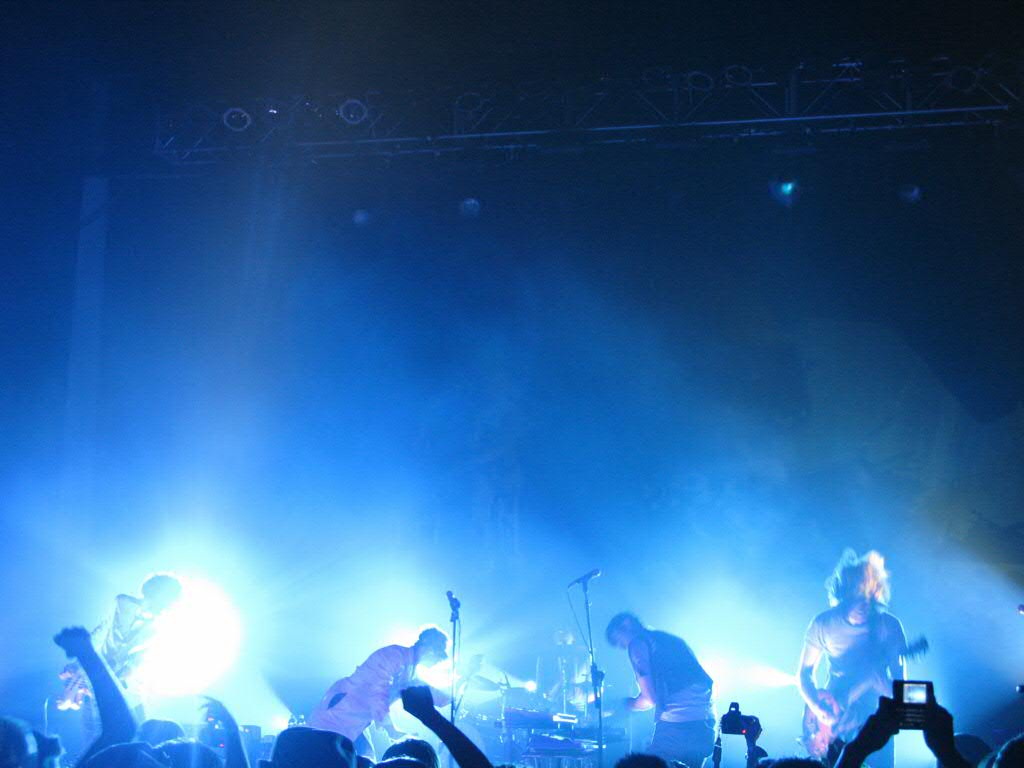 This is an image of the Faint performing live for their album Fasciinatiion.